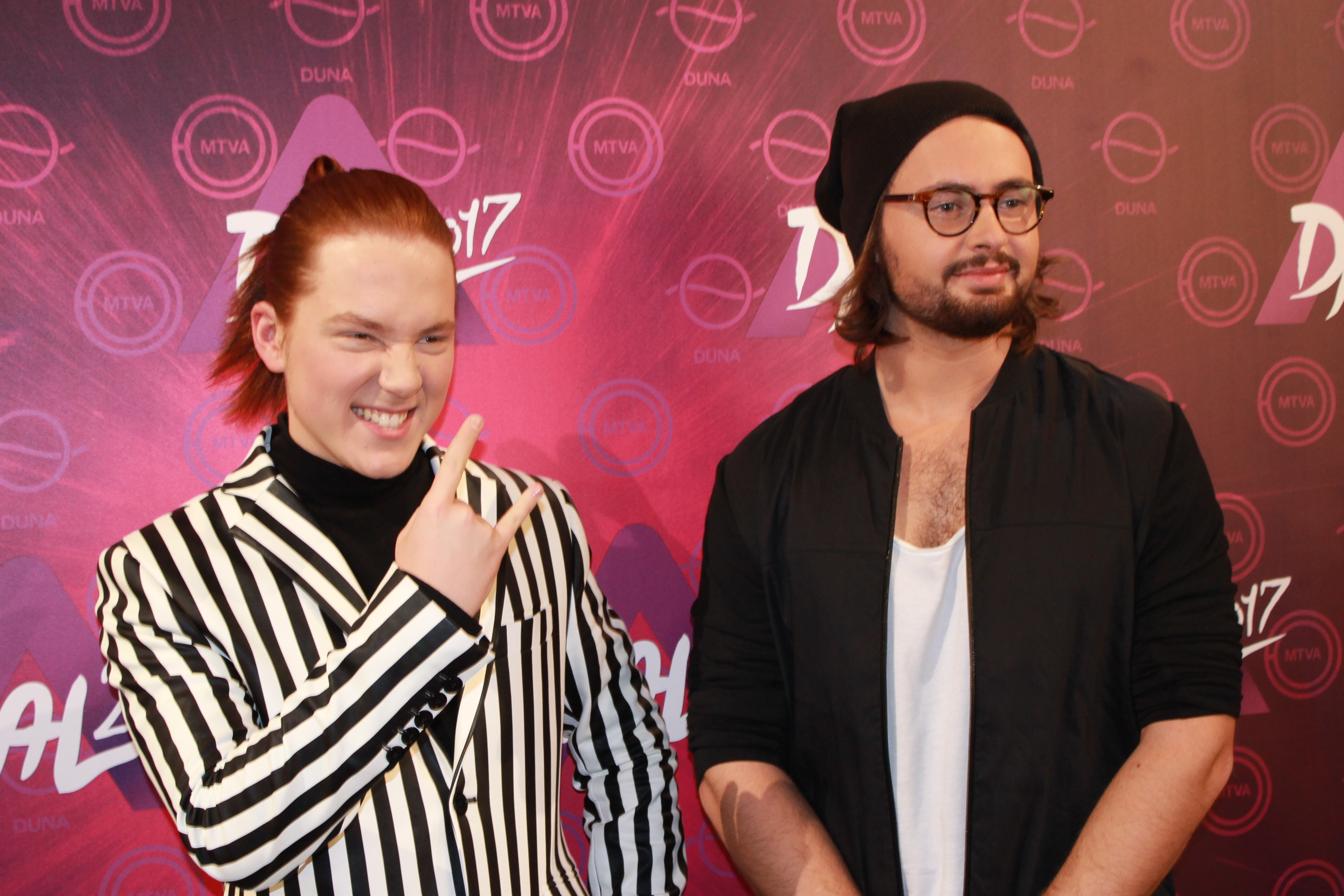 A Dal 2017 participant: Zävodi + Olivér Berkes